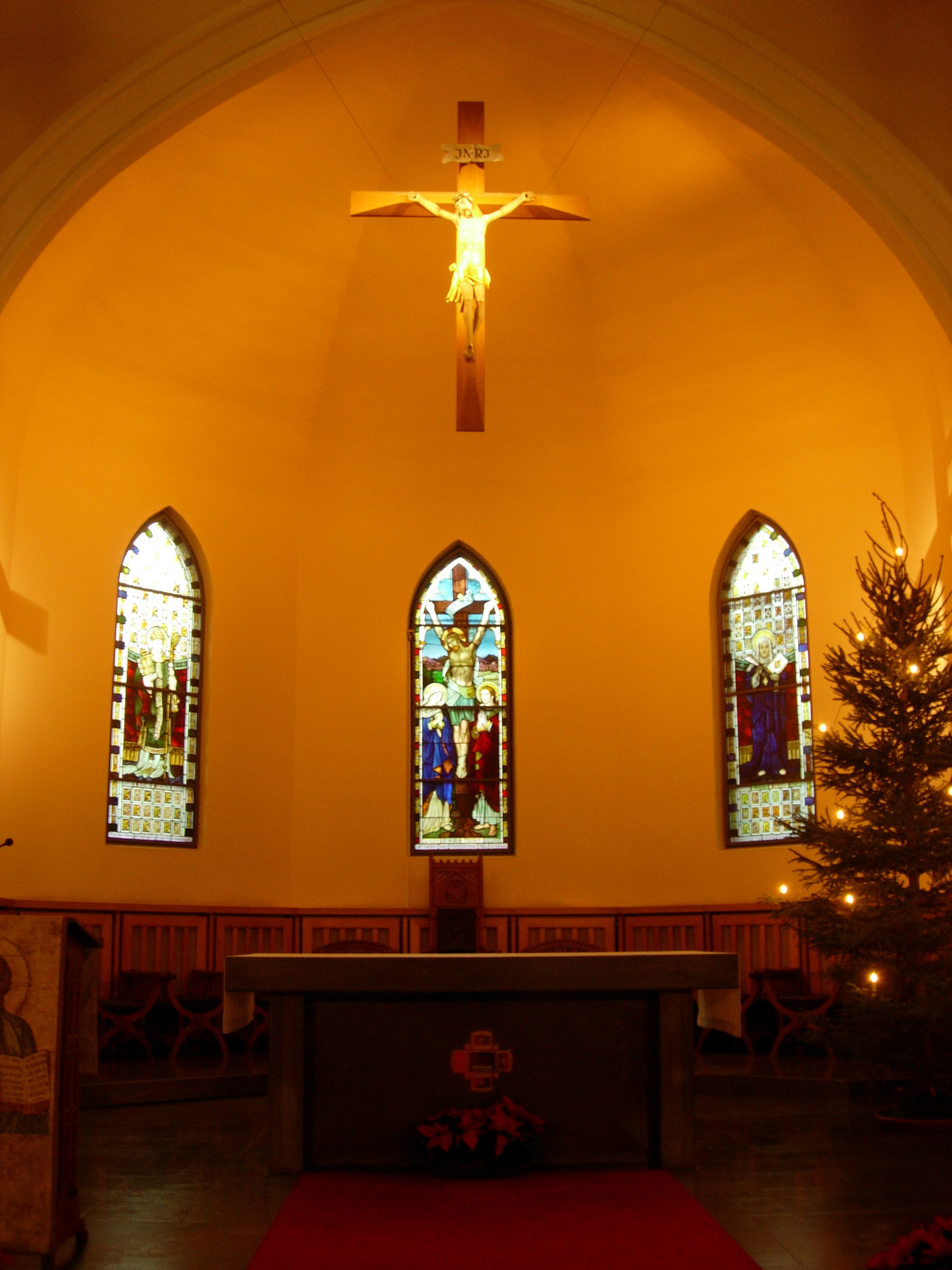 Altar of Helsinki Catholic Cathedral.